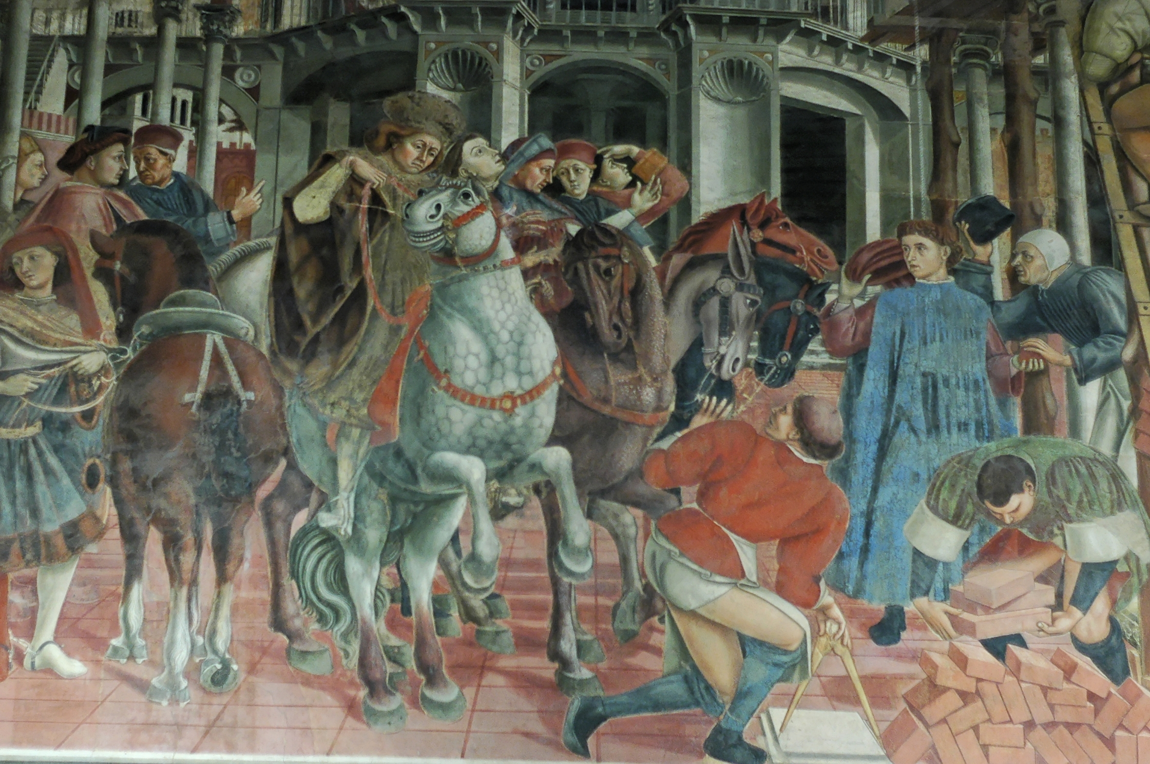 The extension of the hospital. Sala del Pellegrinaio (hall of the pilgrim), Hospital Santa Maria della Scala, Siena.